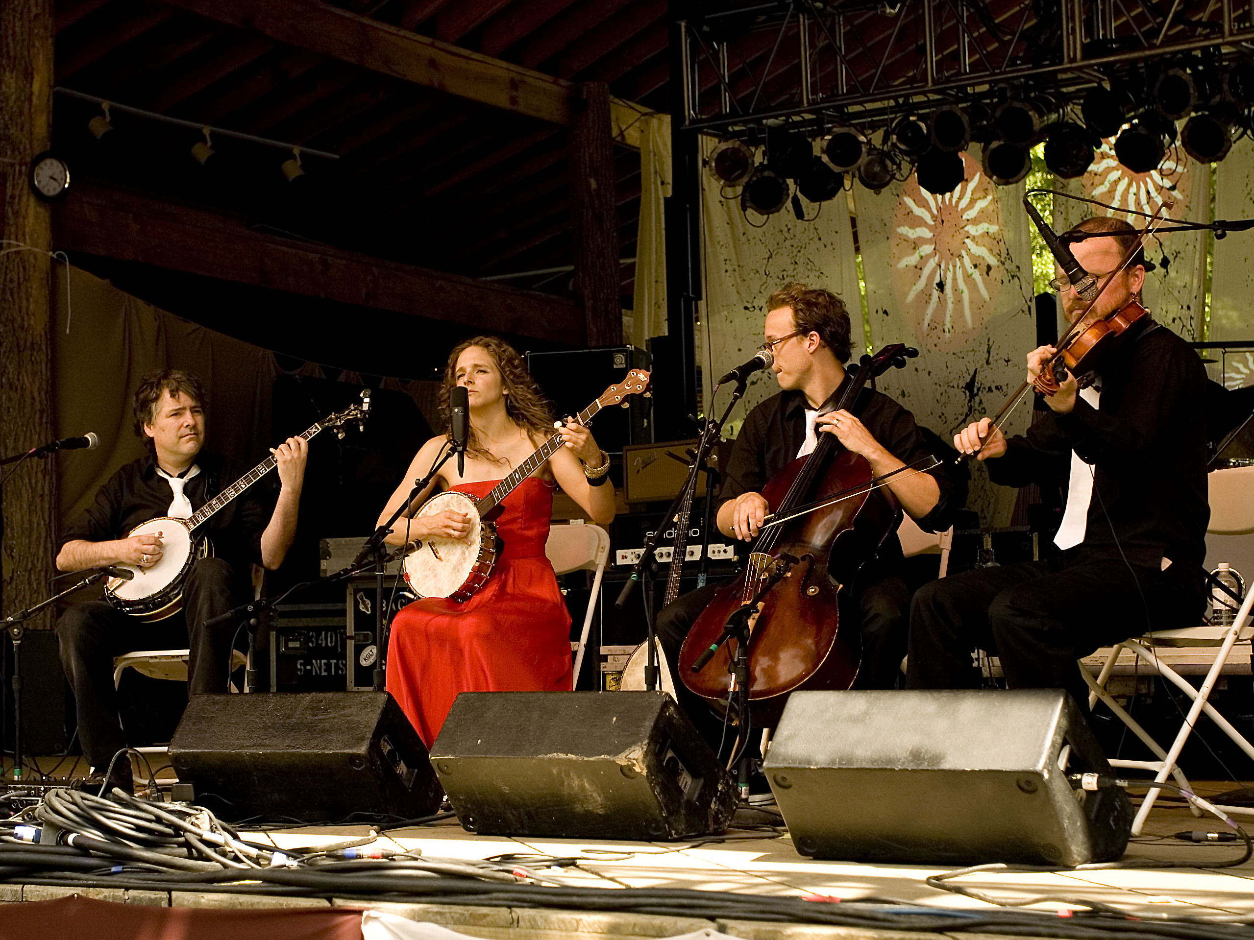 The Sparrow Quartet in performance. Photo taken May 24, 2008 at The Asheville Music Jamboree in Asheville, North Carolina, United States. Left to right: Béla Fleck (bluegrass banjo), Abigail Washburn (clawhammer banjo), Ben Sollee (cello), and Casey Driessen (5-string fiddle).